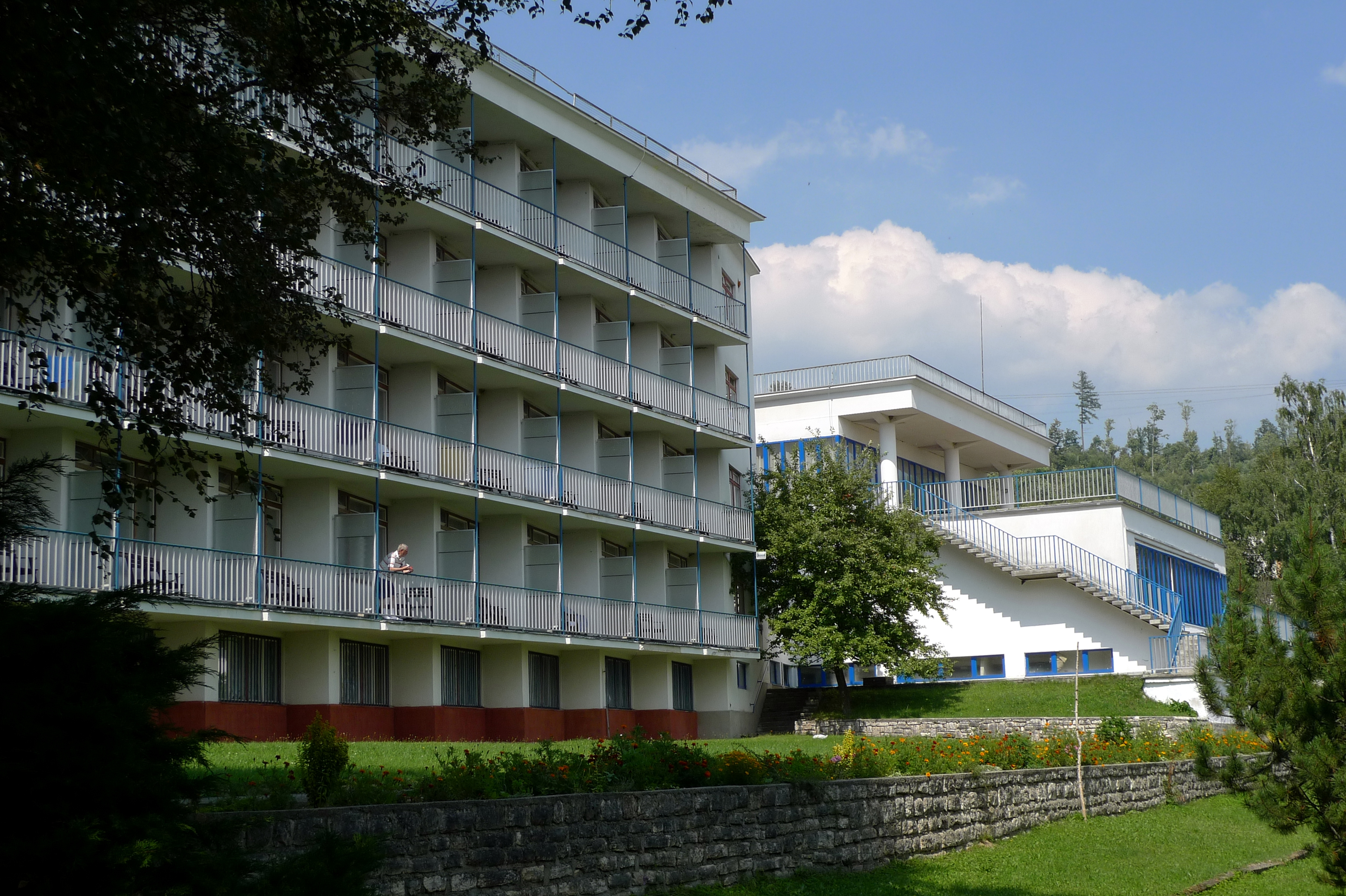 Hotel Morava in Tatranská Lomnica, Slovakia Česky: Hotel Morava v Tatranské Lomnici ve Vysokých Tatrách